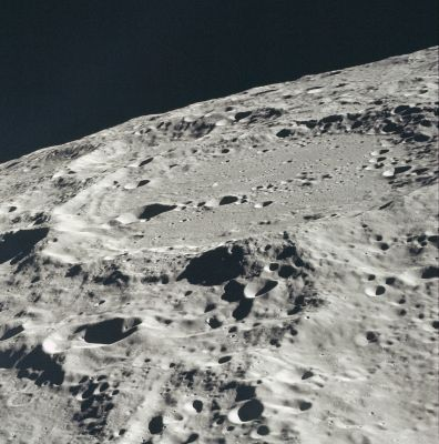 Pavlov lunar crater - Apollo 17 image AS17-151-23237